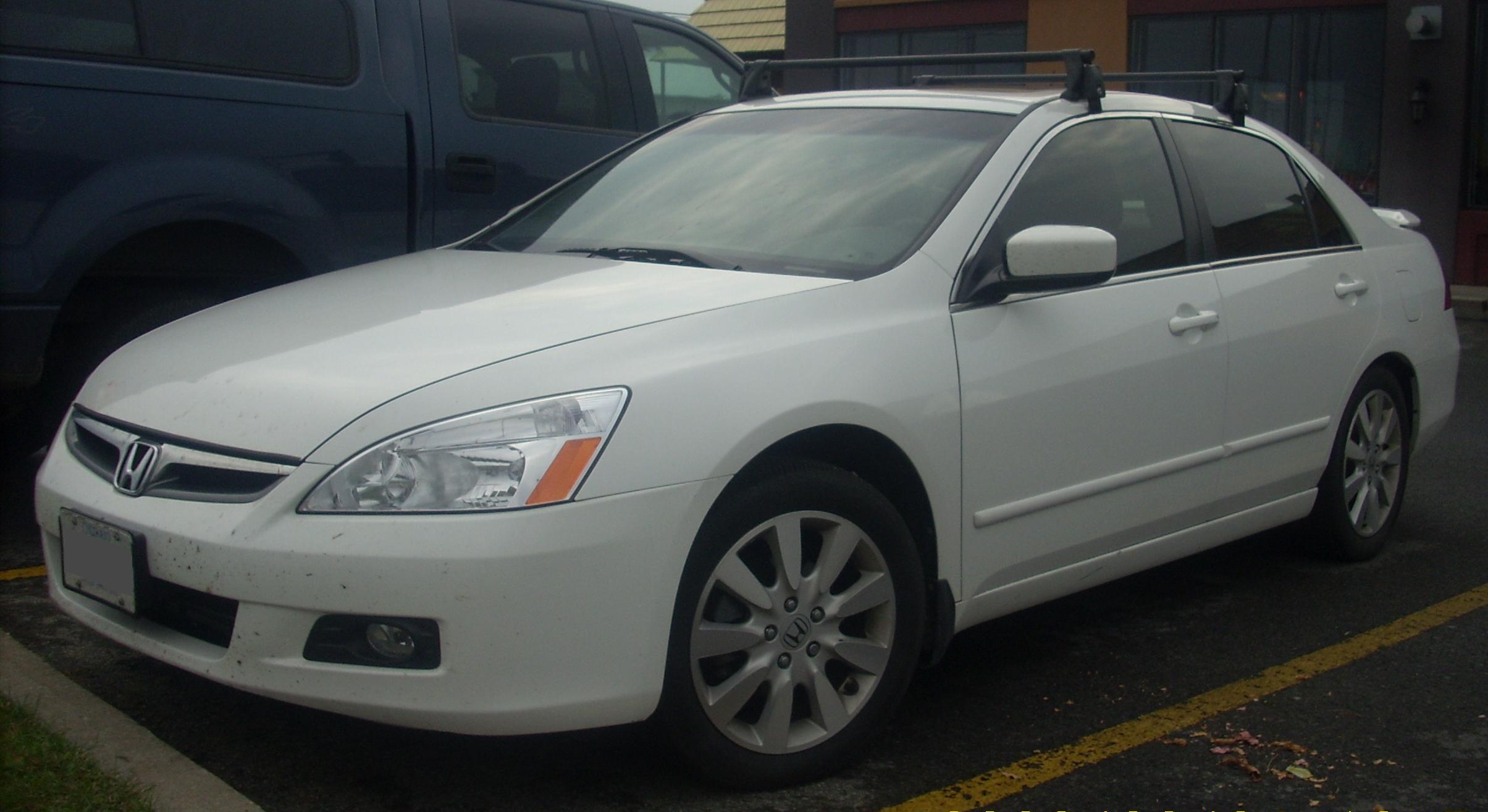 2006-2007 Honda Accord photographed in Vaudreuil-Dorion, Quebec, Canada.